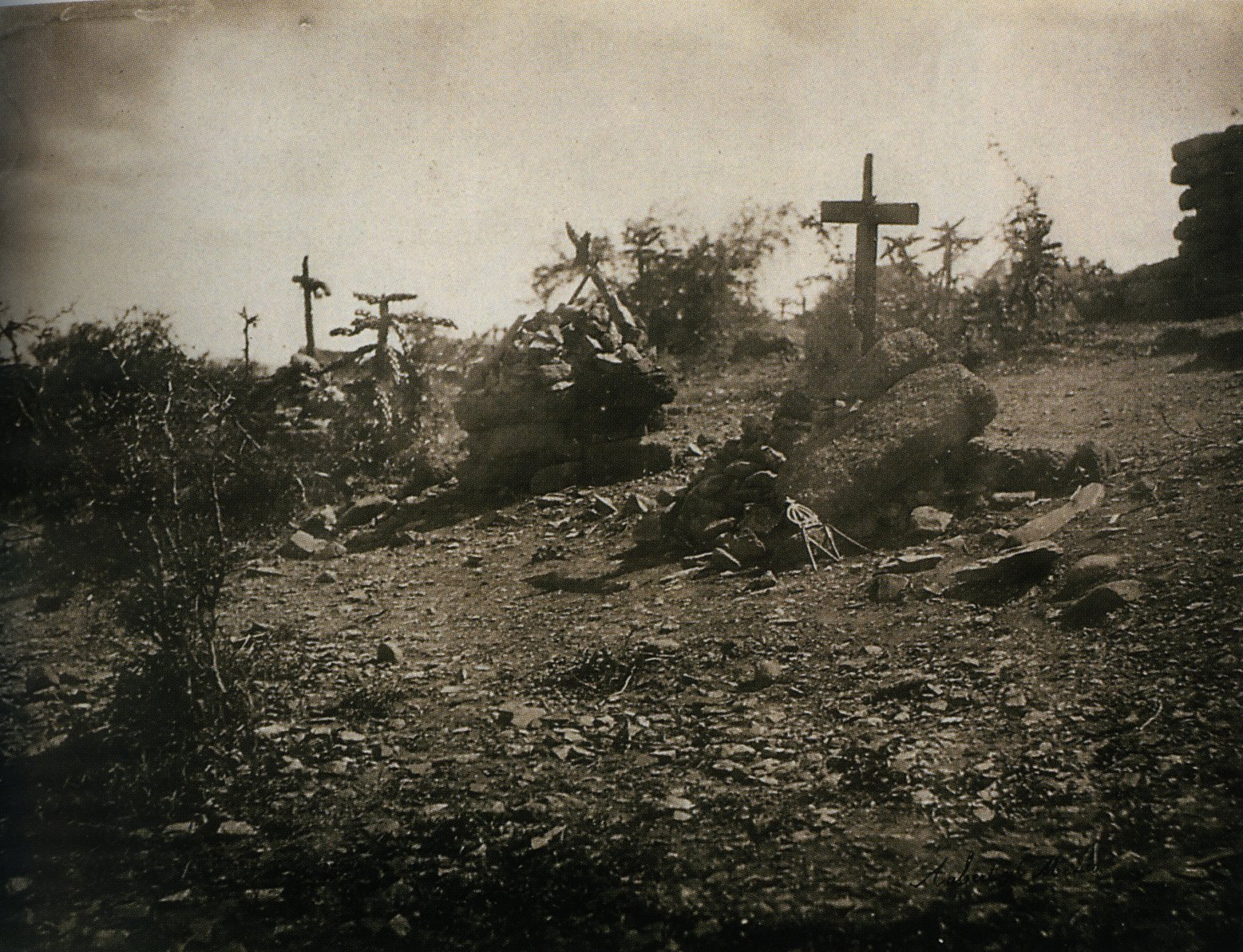 Place of execution of Emperor Maximilian I of Mexico